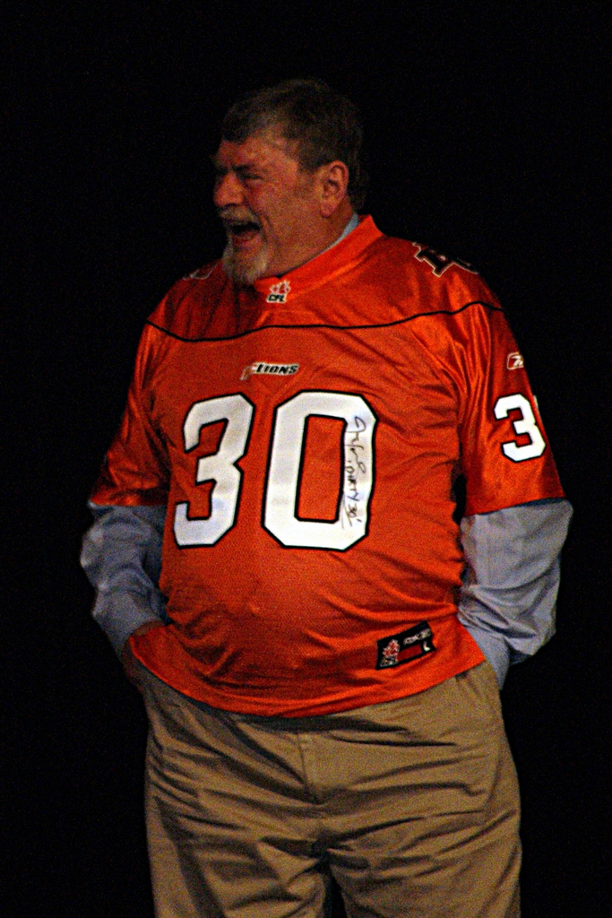 Jim Young at Canada's Sports Hall of Fame Induction Dinner, November 10, 2010 at Calgary, Alberta. James Norman "Dirty Thirty" Young (born June 6, 1943 in Hamilton, Ontario) is a former professional American football and Canadian football player. Young played running back and wide receiver for the NFL's Minnesota Vikings for one season (1965-66), and the CFL's BC Lions for twelve seasons (1967-79).